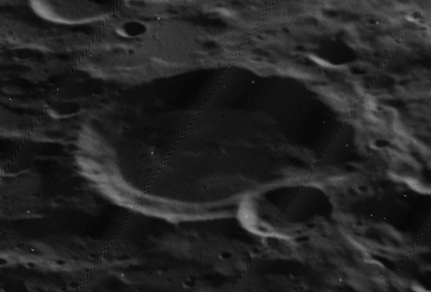 Oblique view of Karrer, on the moon.